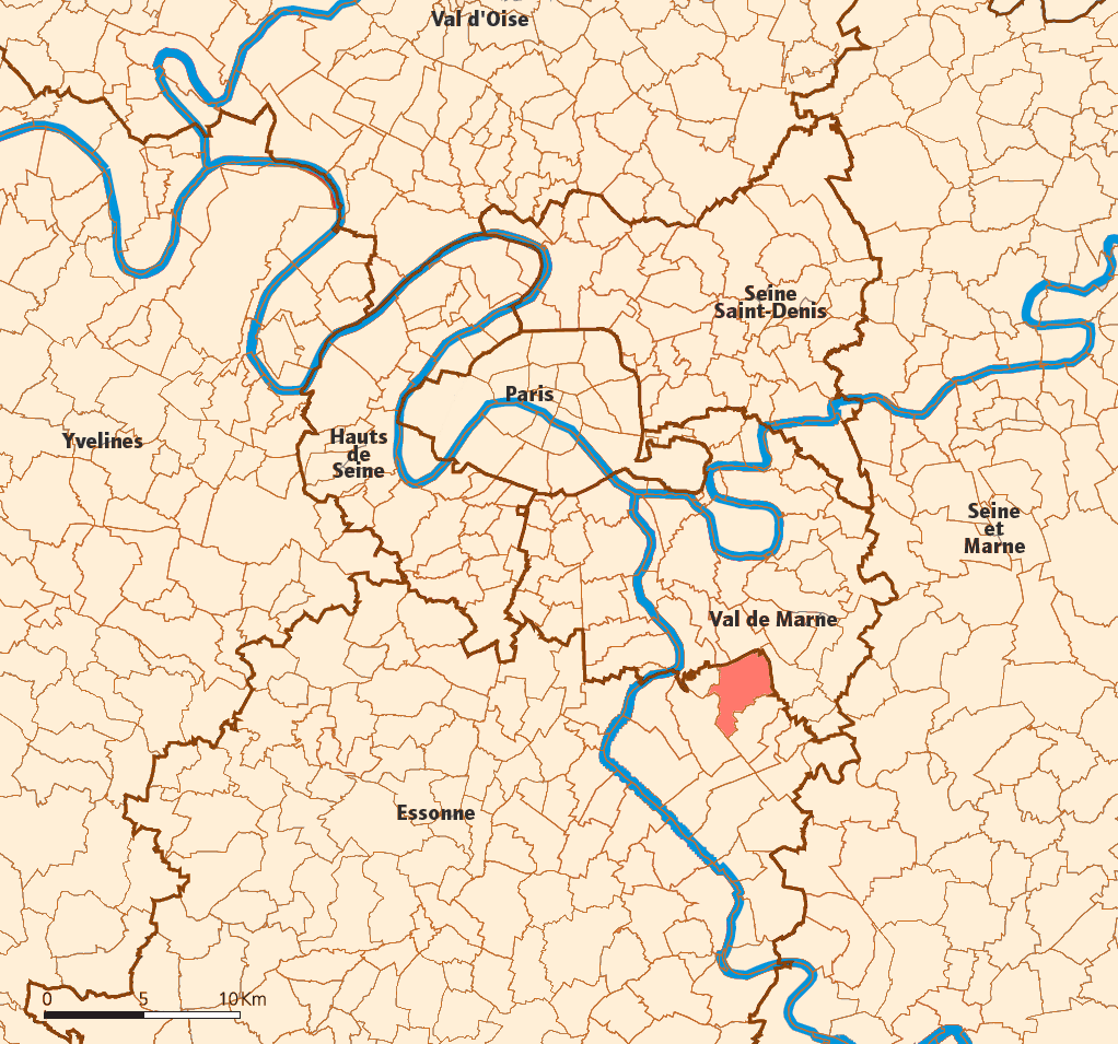 Created map myself.